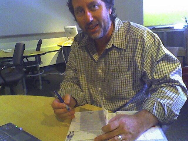 October 2006 photograph of Jordan Weisman signing Cathy's Book, taken by Justin Hall at the USC Interactive Media Division where Weisman is a visiting lecturer. This photo is also available on Flickr.